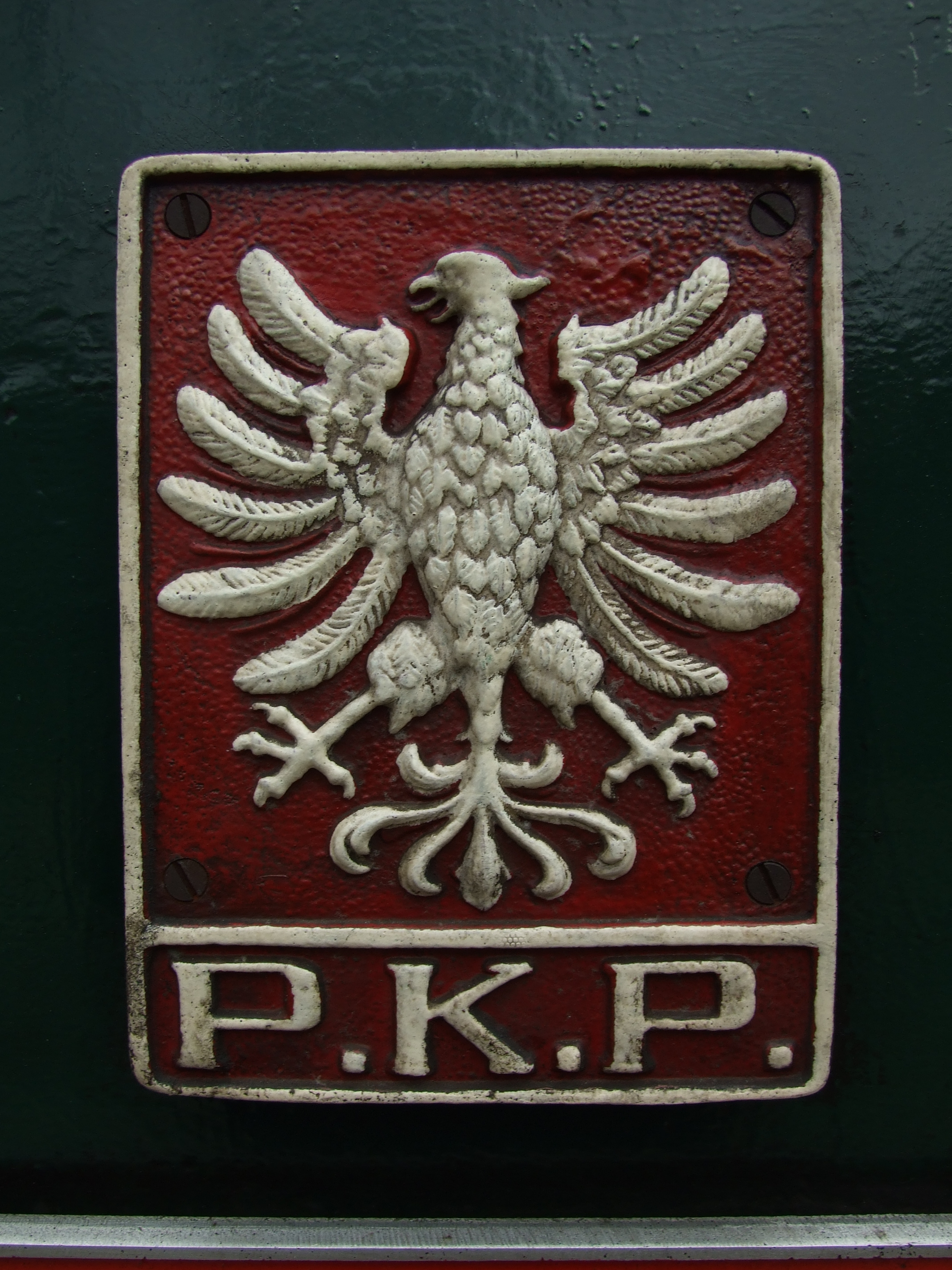 Logo of PKP - former operator of this steam locomotive, currently on JMHD - the gauge track in Jindřichův Hradec, South Bohemian Region, CZ